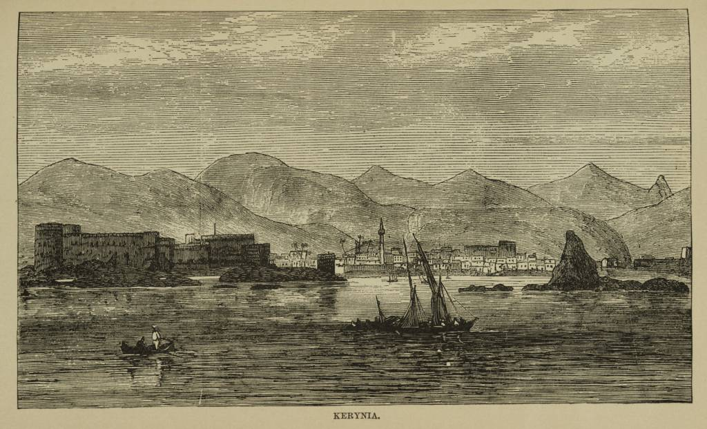 A view of the city of Kerynia from the water.